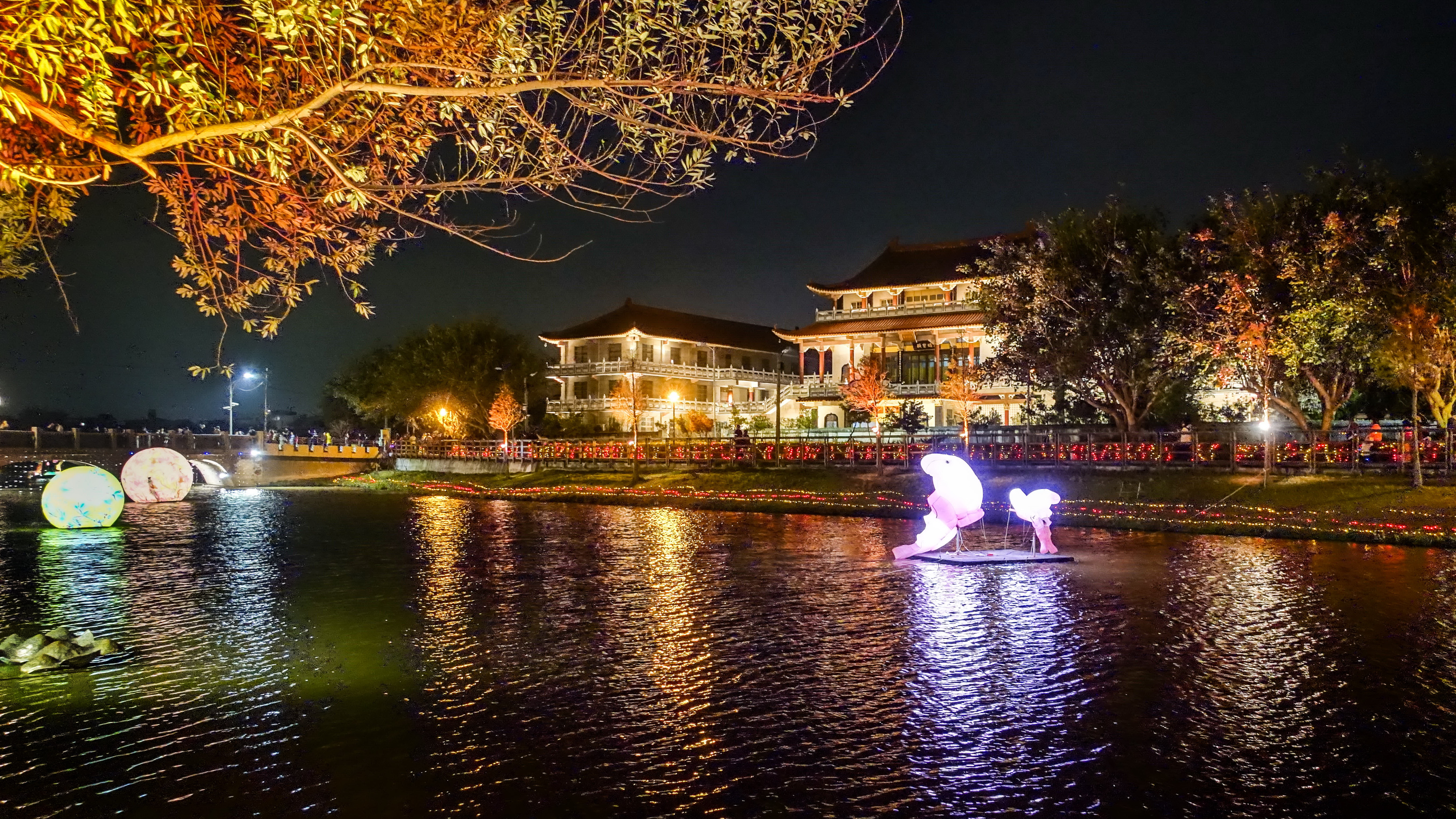 Yuejin Lantern Festival, Yuejin Port, Yanshui, Tainan, Taiwan.